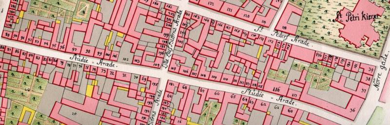 Detail showing Studiestræde on Gedde's district map of Copenhagen, Denmark